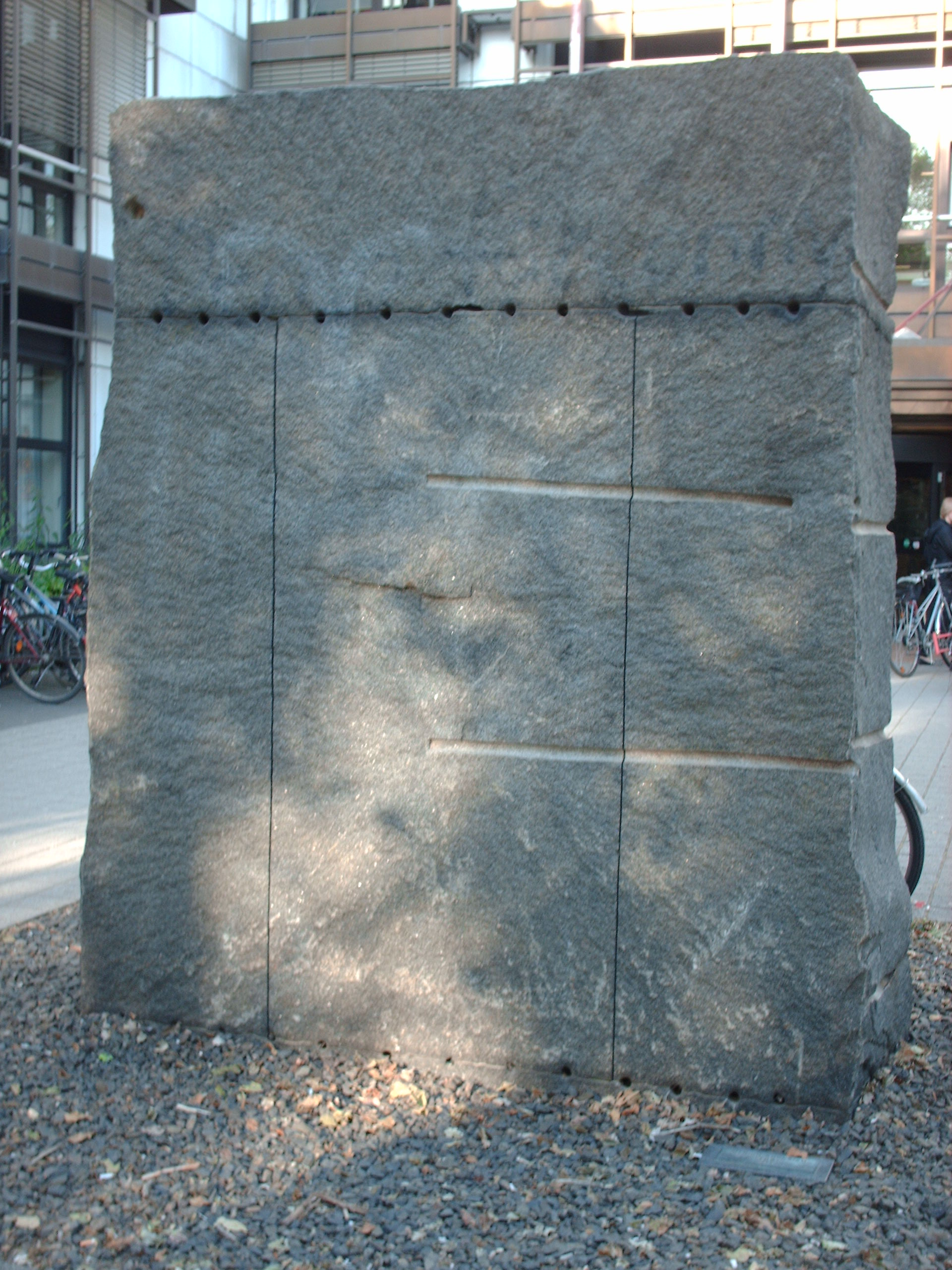 Tor by Ulrich Rückriem, part of Gießener Kunstweg, Gießen, Germany check usage